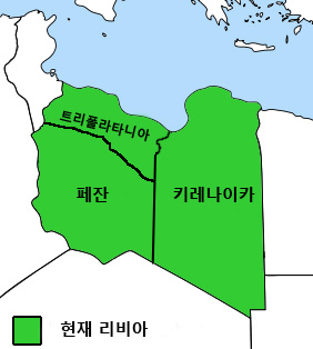 Ottoman Turks conquered the country in the mid-16th century, and the three States or "Wilayat" of Tripolitania, Cyrenaica and Fezzan (which make up Libya) remained part of their empire with the exception of the virtual autonomy of the Karamanlis. The Karamanlis ruled from 1711 until 1835 mainly in Tripolitania, but had influence in Cyrenaica and Fezzan as well by the mid 18th century.